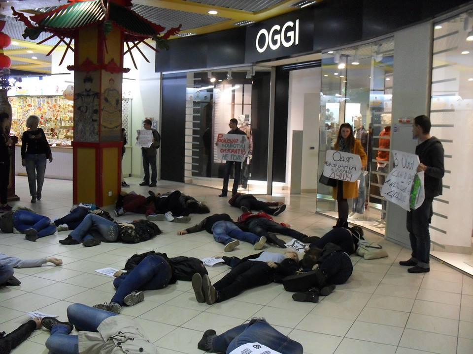 Flash mob near Russian clothing store "OGGI" in Kiev, "Do not buy Russian goods!" campain. Picture made by activist of "Vidsich".